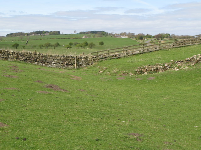 Halton Chesters (Onnum) Roman Fort - ditch beyond the south wall (2) Looking north of west across much of the grid square towards Portgate in NY9868.